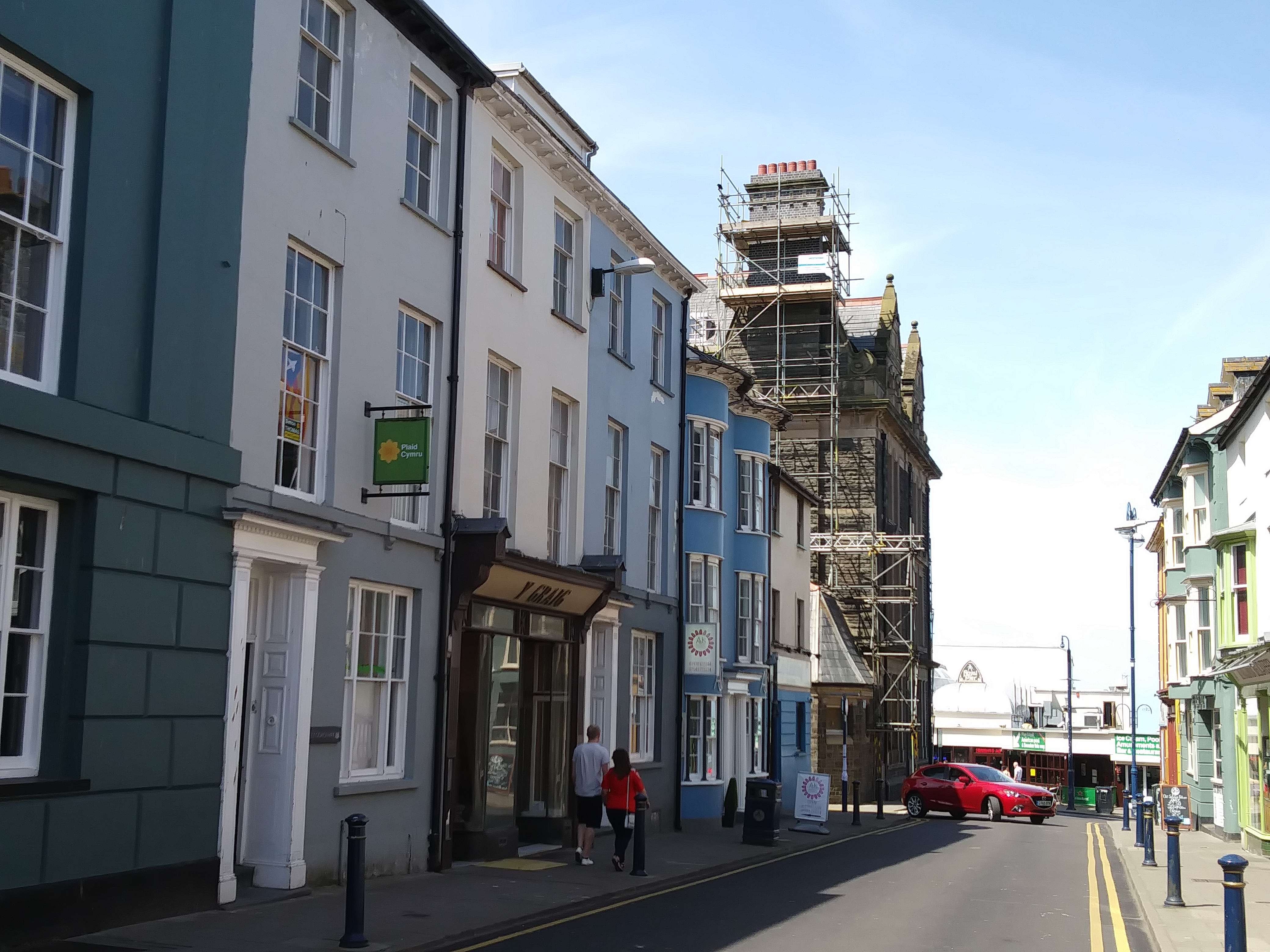 Pier St, Aberystwyth, southern side Аҧсшәа: Heol y Wig, Aberystwyth tua'r môr ochr ddeheuol